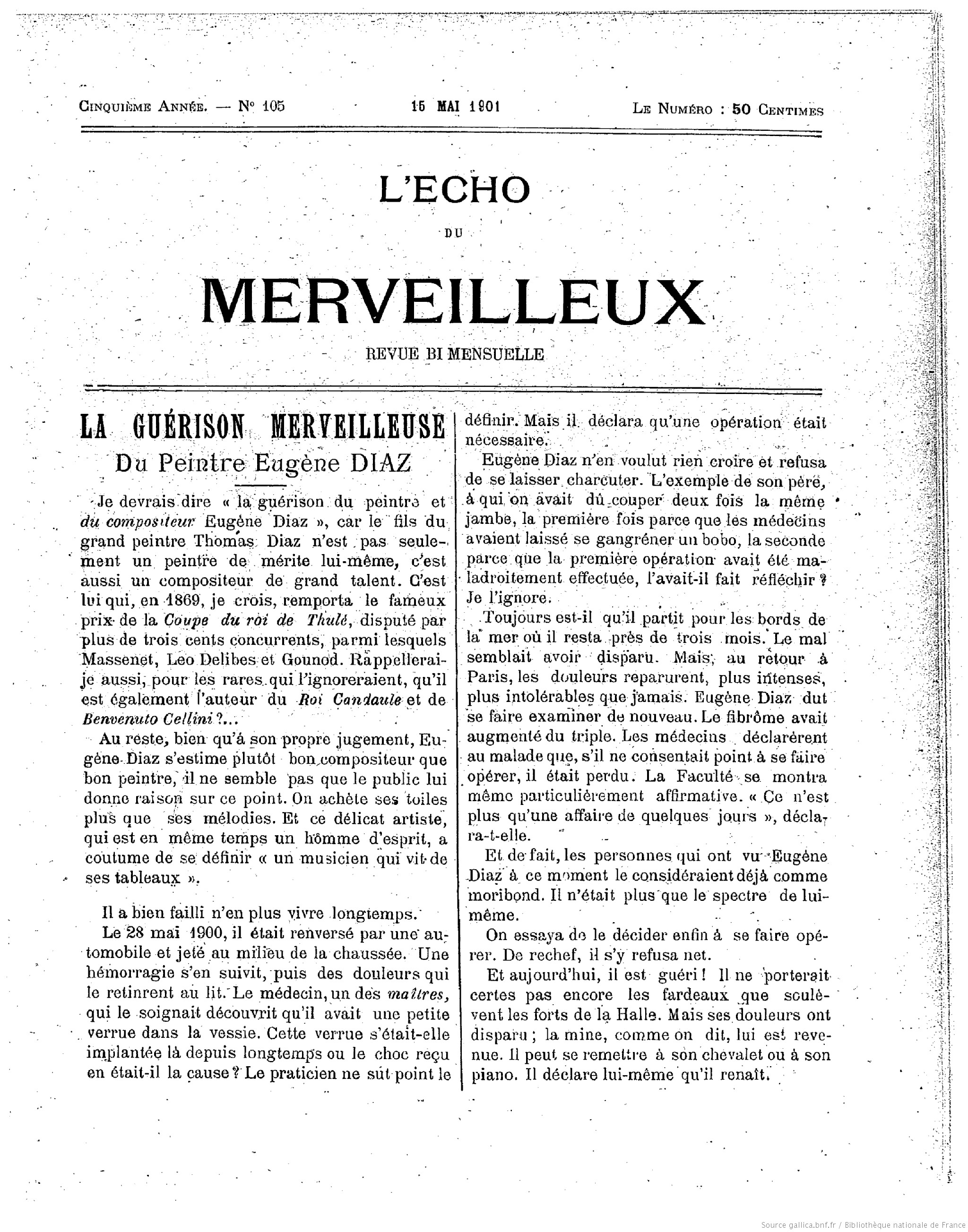 Front page of L'écho du merveilleux